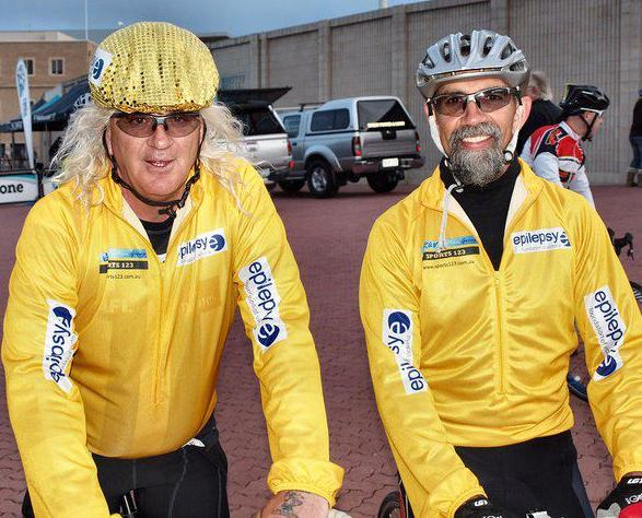 Joffa Corfe and Joffre Pearce in Murray Bridge at the start of the final leg of their fund-raising trip for Epilepsy Victoria, cycling from Melbourne to Adelaide.